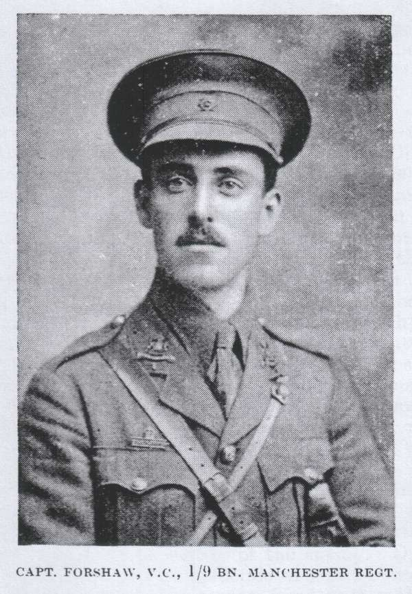 Photograph of Captain William Thomas Forshaw, VC, 1/9 Battalion, The Manchester Regiment.